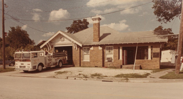 Houston Fire Department Station #18 in 1976